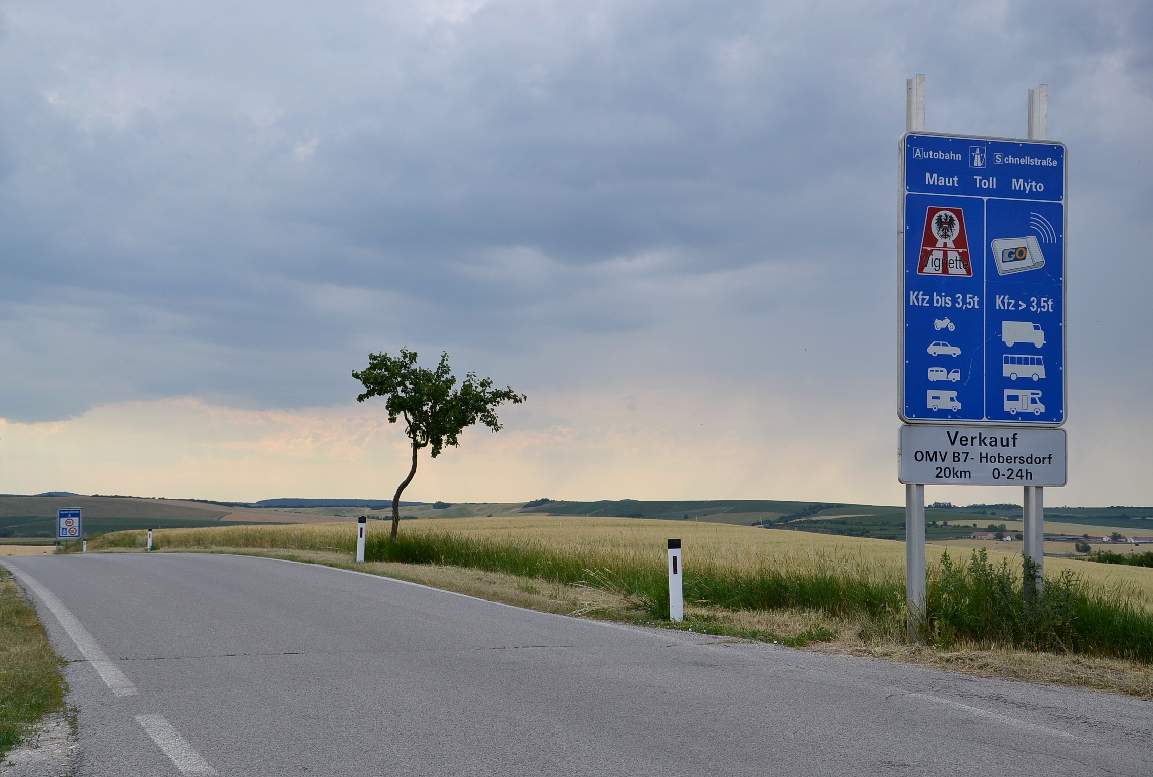 Border Austria-Czech Republic (Schrattenberg - Valtice)